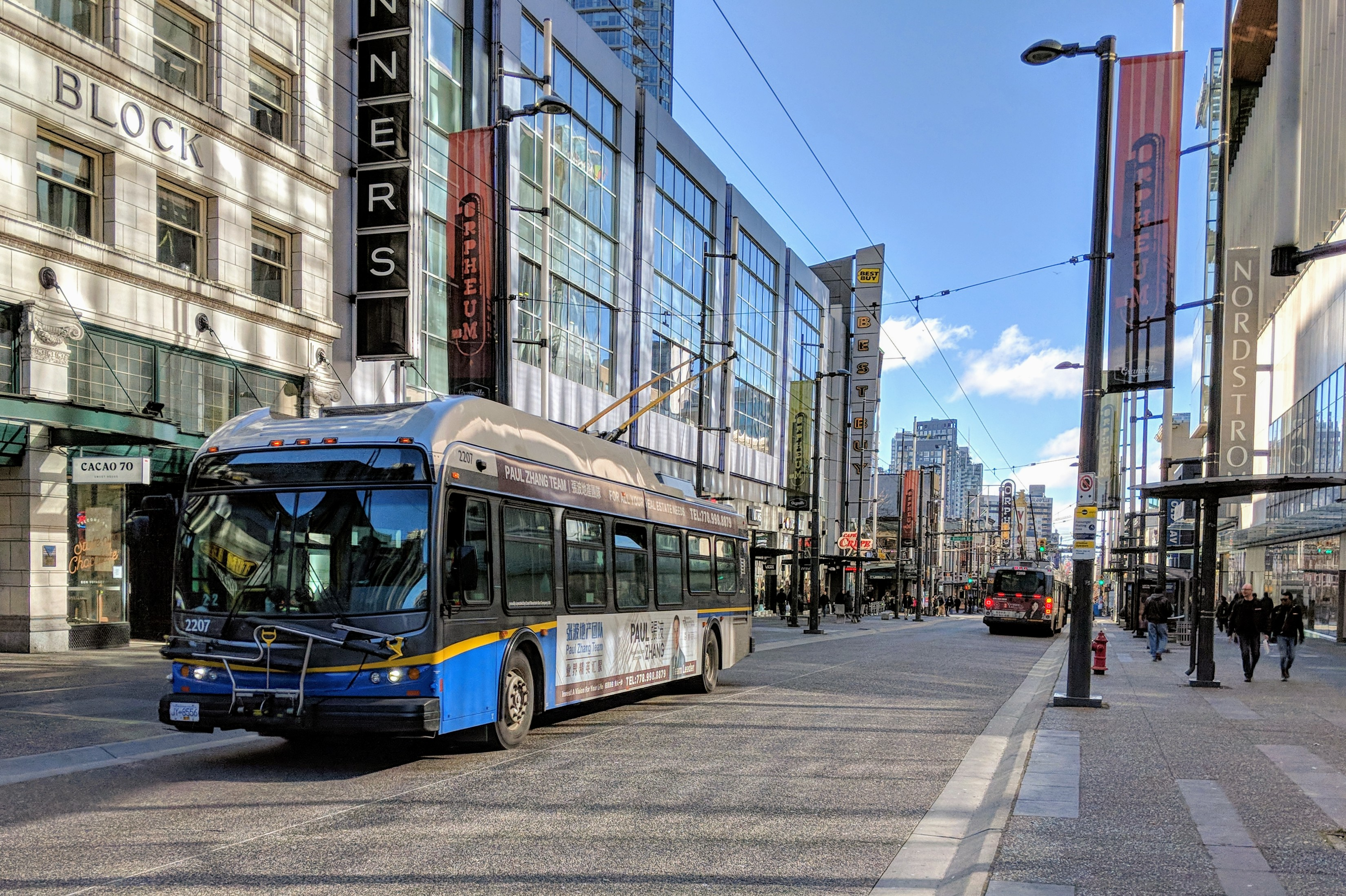 Vancouver trolleybus 2207, a New Flyer E40LFR built in 2006–07, northbound on the Granville Mall.